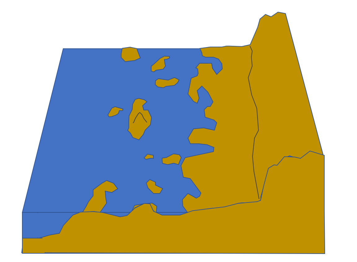 Schmematic profile of a strandflat in Norway. To the right lies a higher terrain with may represent a Paleic surface or some uneven landscape. To the left of this lies a steep slope leading to the strandflat. The strandflat is both flat and undulating and forms to the left a skerry zone. The skerry zone is separated from the submarine flat surfaces of the bankflat by an underwater slope. The large island in the middle host a rauk (an isolated hill akin to an inselberg).